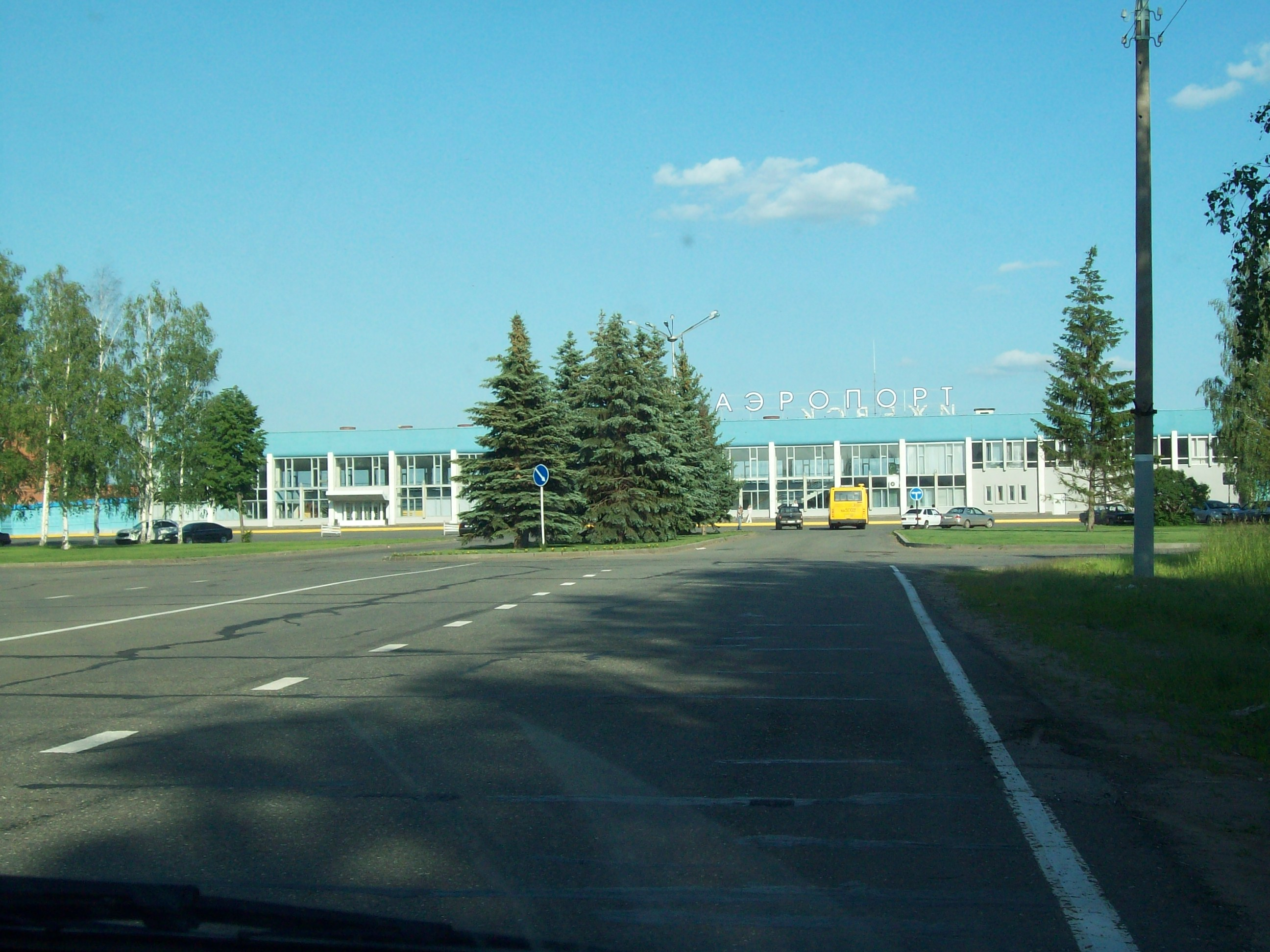 Izhevsk_airport